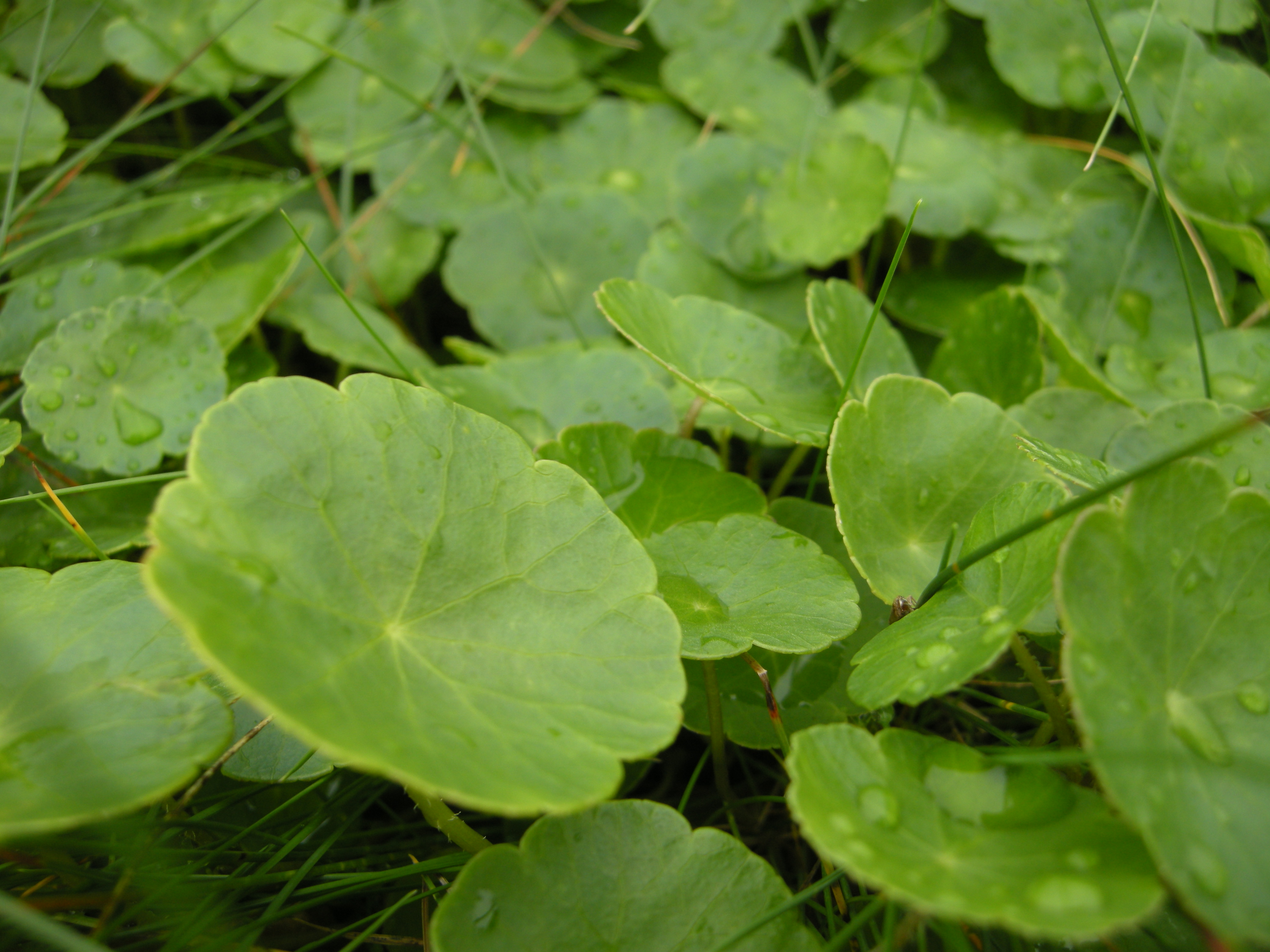 Hydrocotyle vulgaris taken at Utsira in Rogaland, Norway